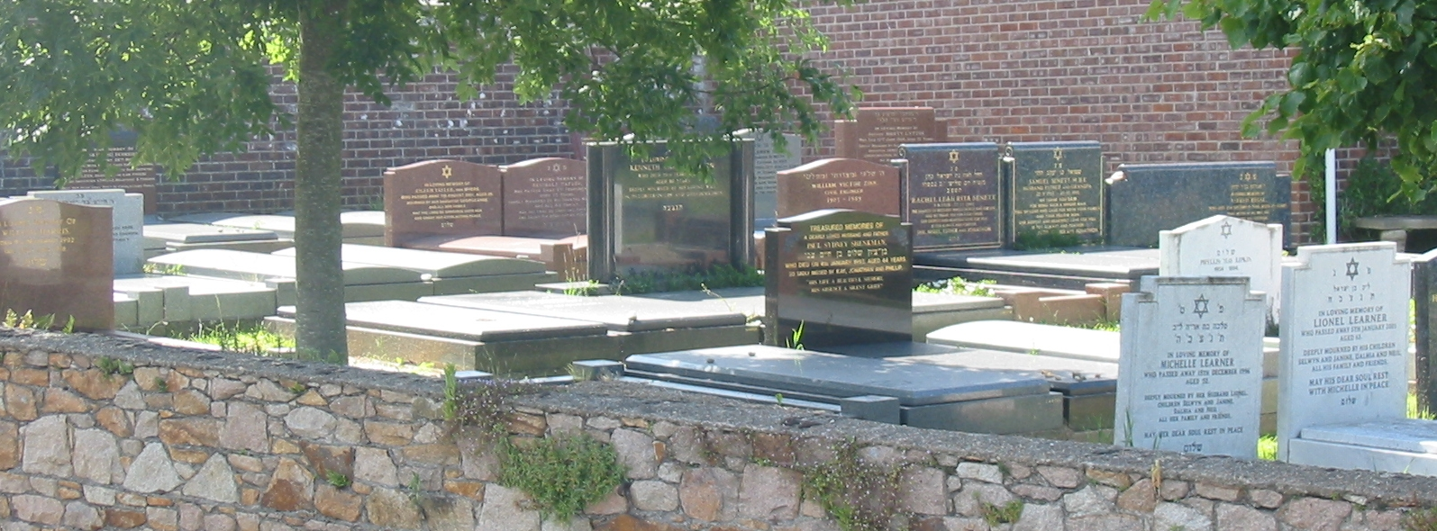 Mont à l'Abbé cemeteries, Saint Helier, Jersey, 21 June 2009